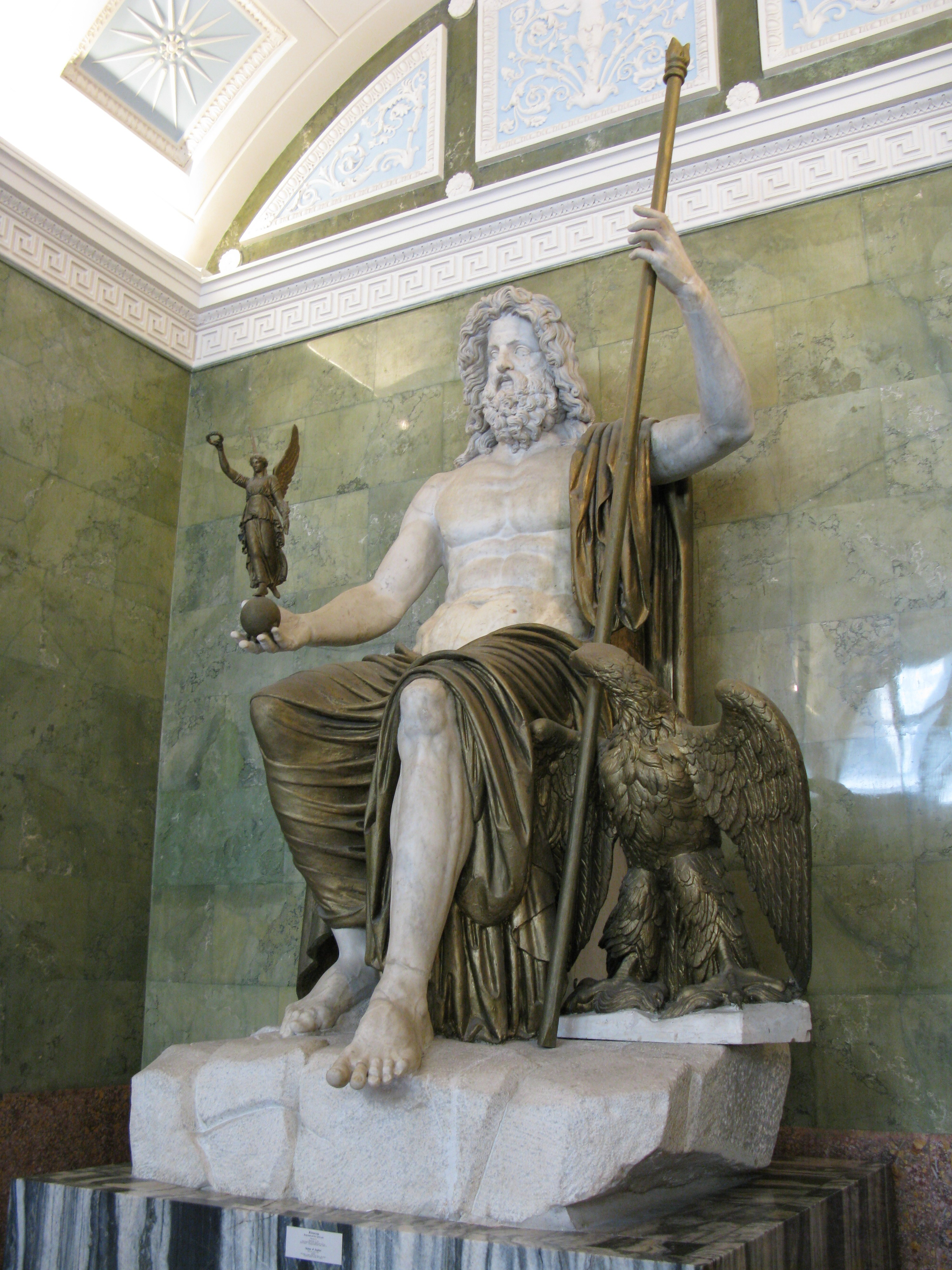 Statue of Jupiter Late 1st century AD, marble. Drapings, cepter, Eagle, and Victory are made of painted plaster dating to the 19th century.